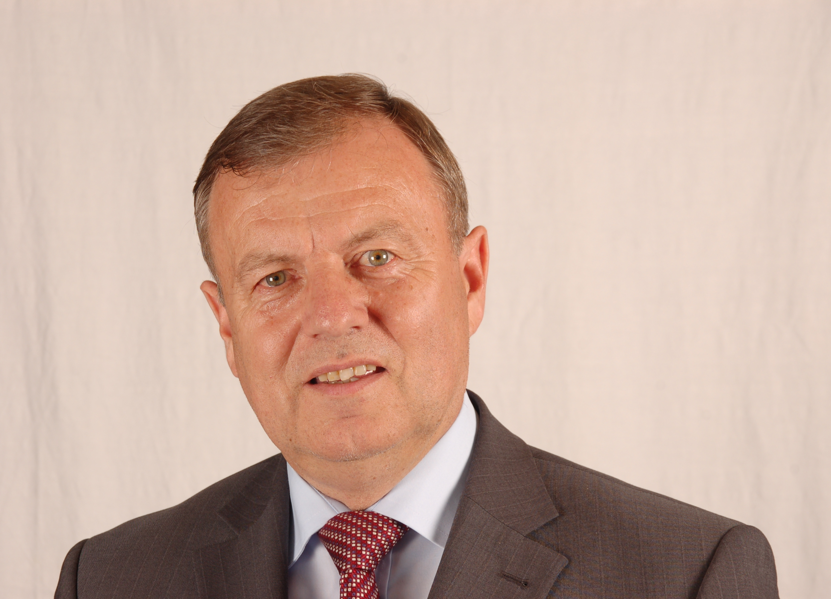 Christian Gumprecht